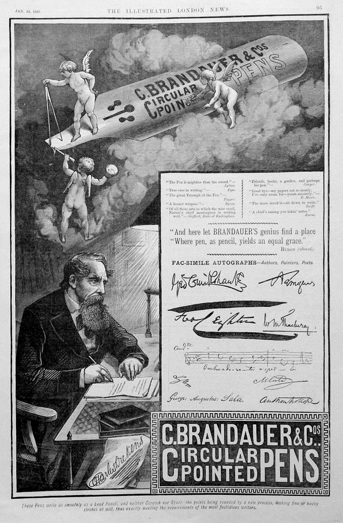 An advertisment for the C. Brandauer & Co circular pointed pens.